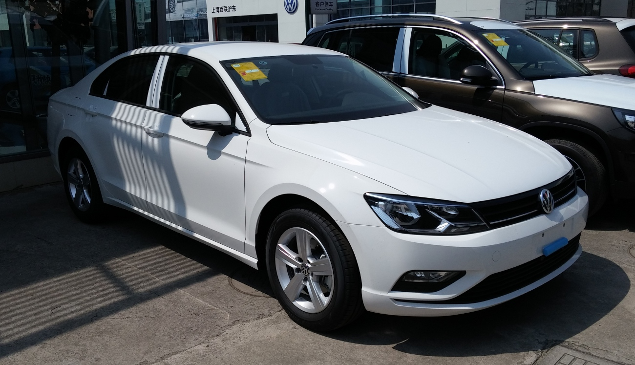 Volkswagen Lamando photographed in Shanghai, China.